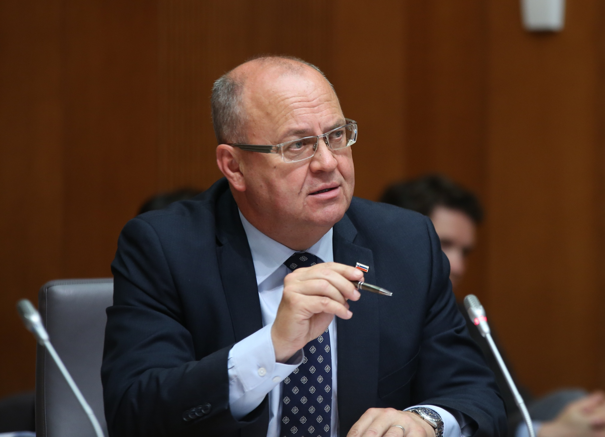 Jožef Horvat